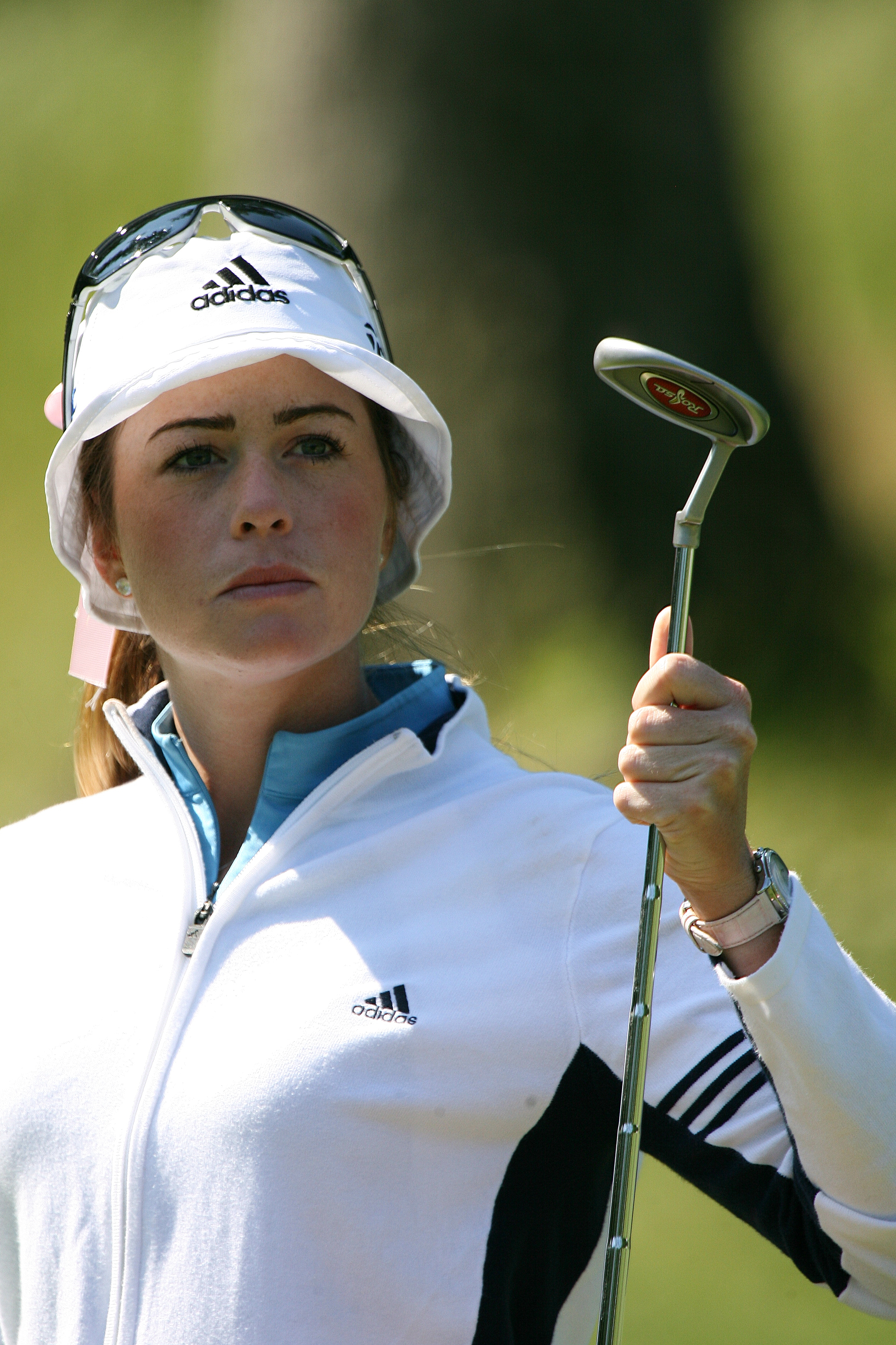 HAVRE DE GRACE, MD - JUNE 06: Paula Creamer (USA) during practice before 2007 LPGA Championship held at Bulle Rock Golf Course, on June 6, 2007 in Havre de Grace, Maryland. (Photo by Keith Allison)